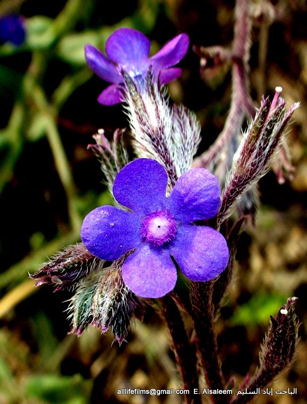 نباتات برية سورية تؤكل